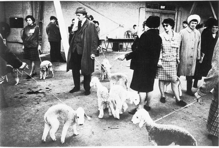 Crufts Dog Show 1968. Collection of (National Media Museum (Tony Ray-Jones, 1941-1972)